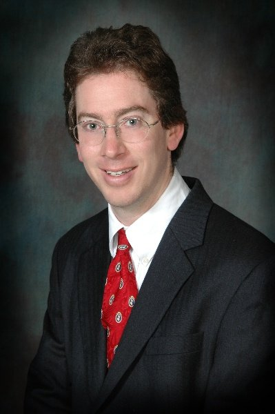 Bryan Caplan of GMU Economics Dept.